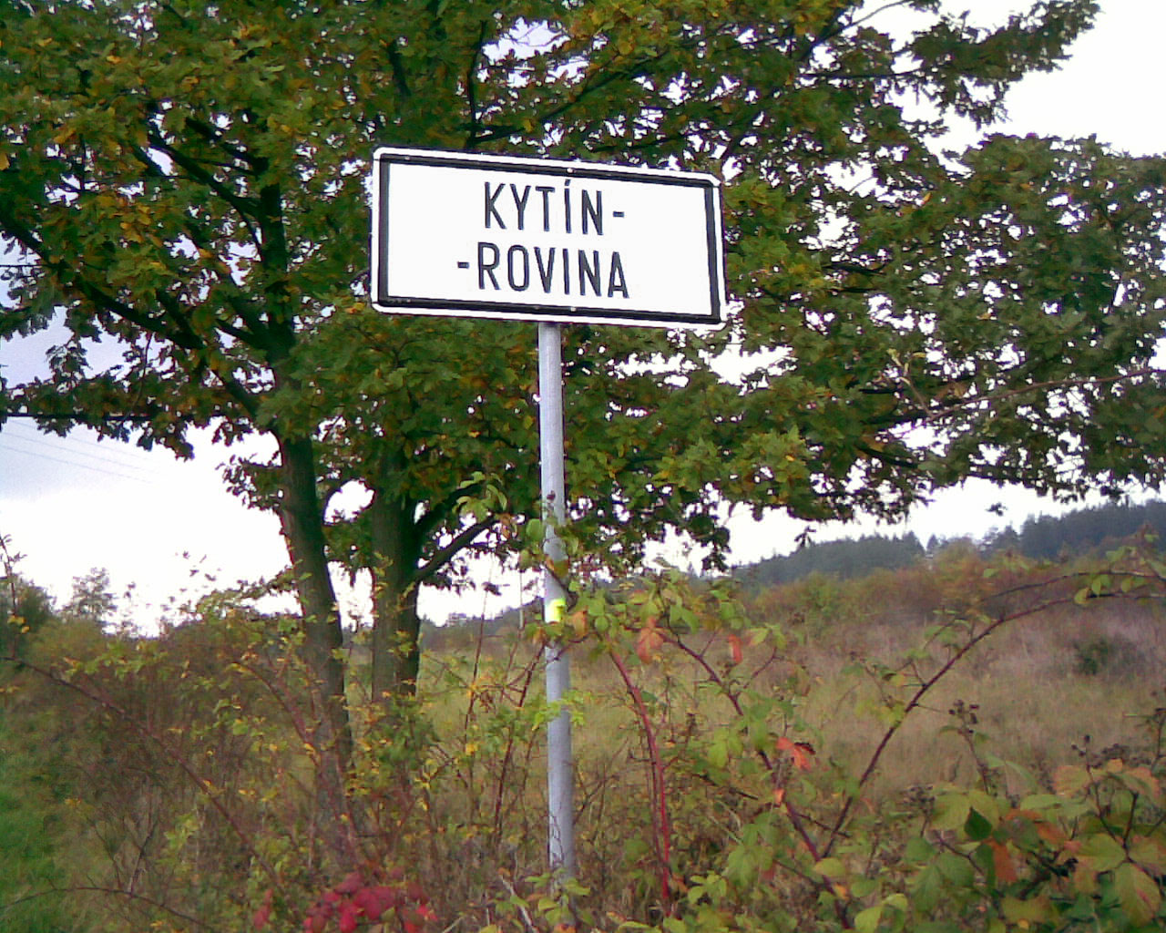 Municipal border sign of a part of Czech village Kytín